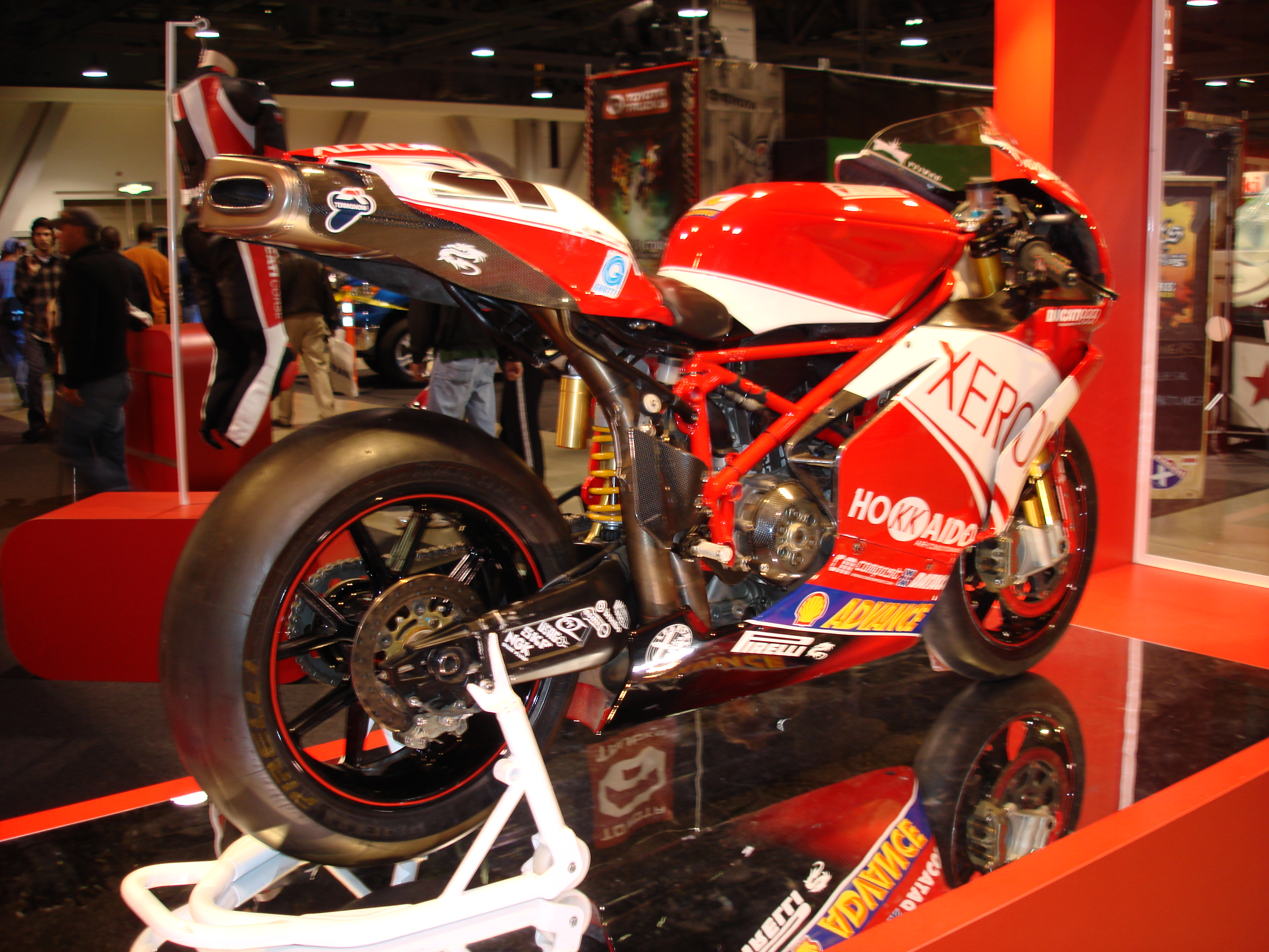 2007 2006 Ducati 999R Xerox on display at the 2006 International Motorcycle Show in Long Beach, CA. Camera used was a Sony Cyber-shot DSC-W100.